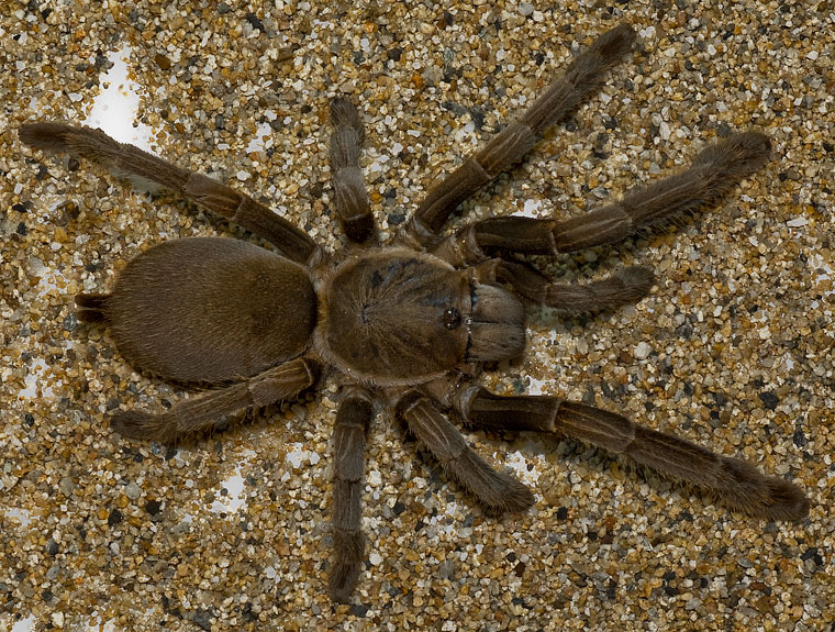 Selenocosmia crassipes. Licensed CC-BY-SA